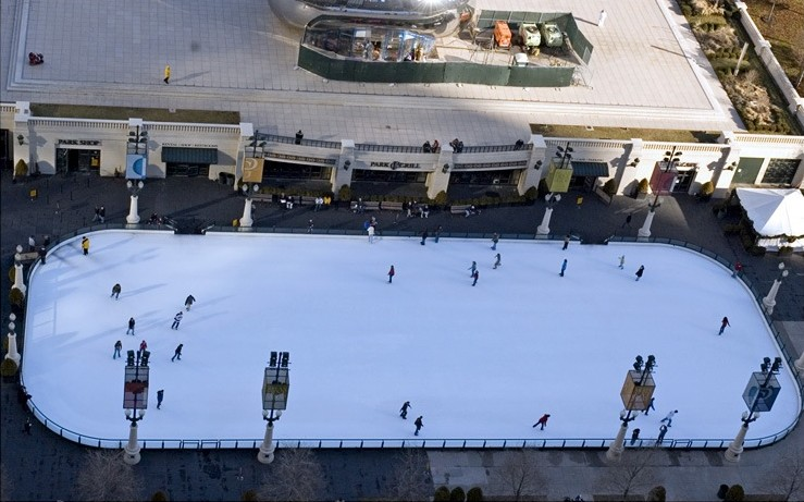 Cloud Gate (The Bean) and McCormick Tribune Ice Rink